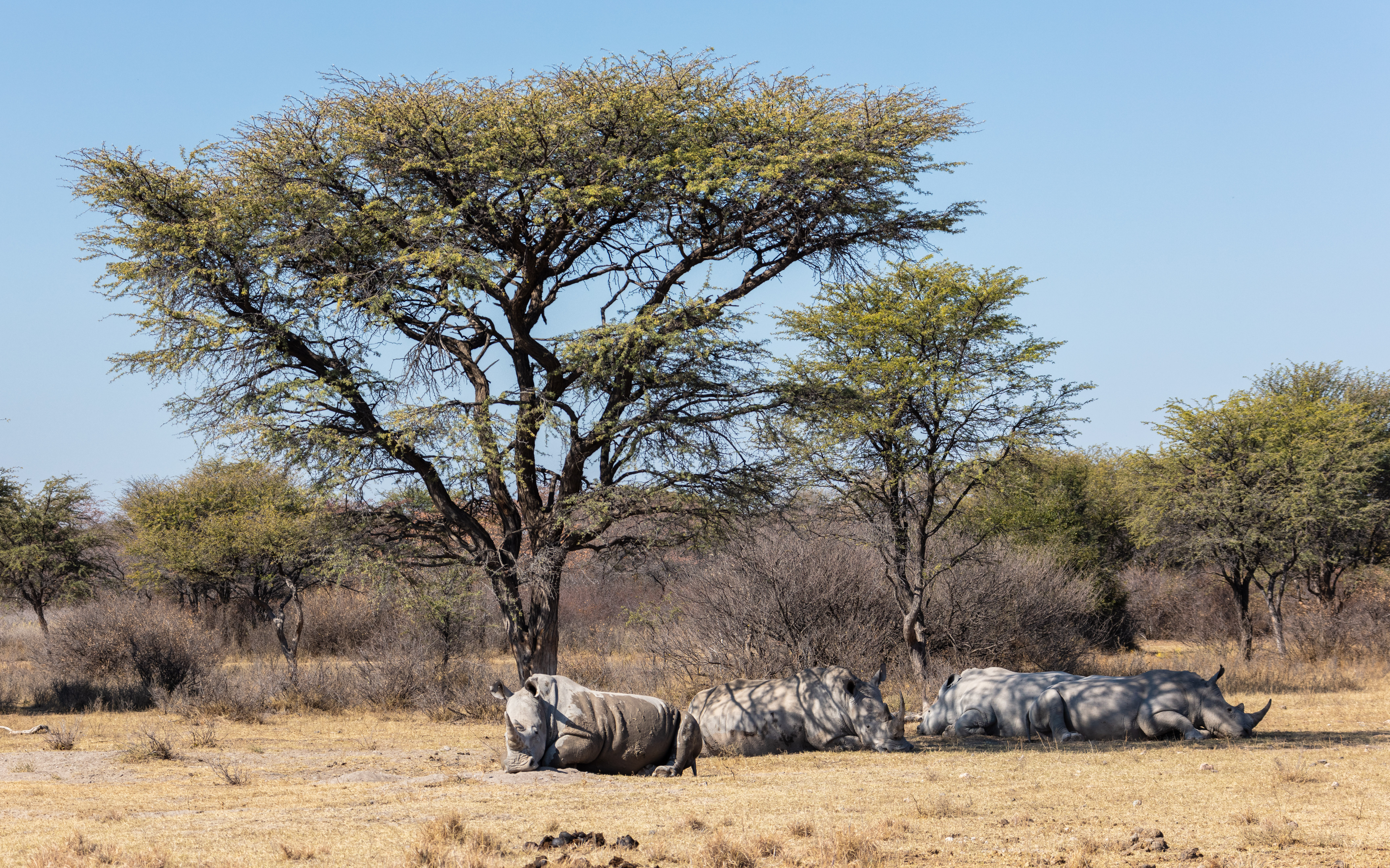 White rhinoceros (Ceratotherium simum), Khama Rhino Sanctuary, Botswana